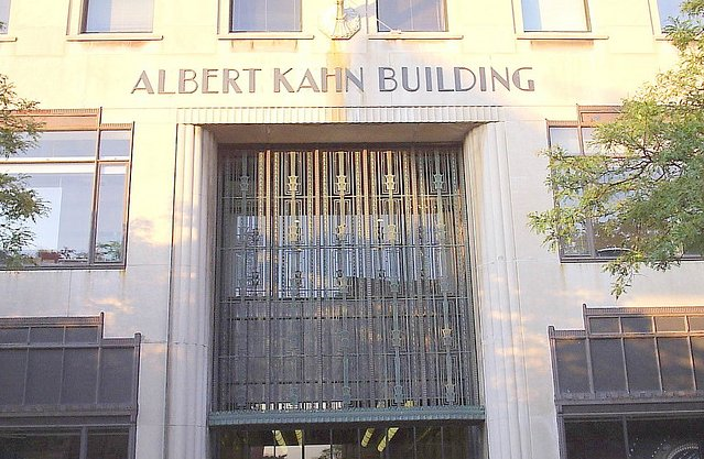 Albert Kahn Building front entrance